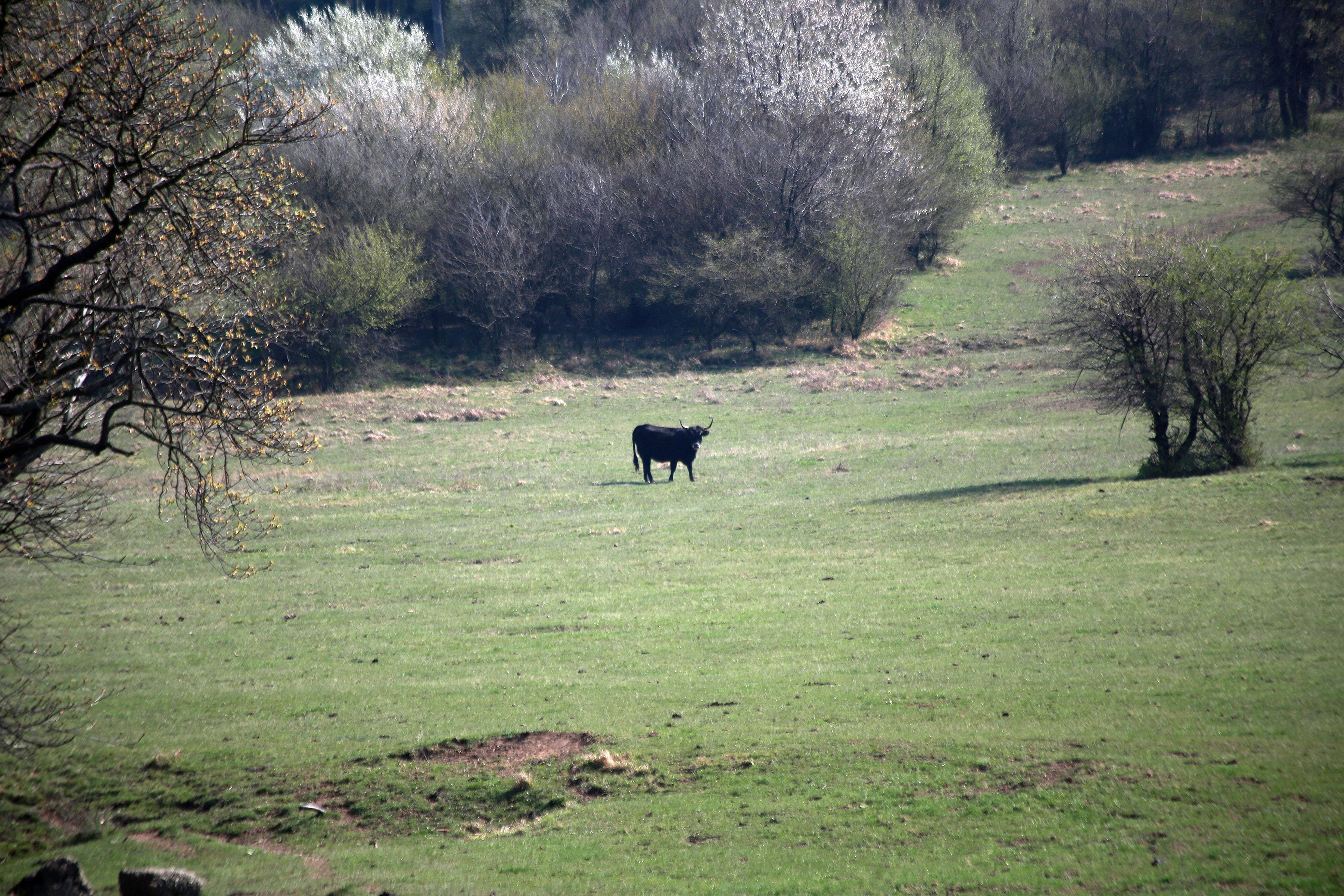 Heck cattle in Lainzer Tiergarten (Vienna, Austria).